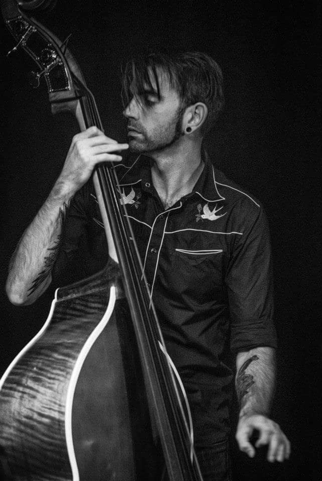 Andy 'Rockin' Bones' Boyce - double bassist in The Hangmen